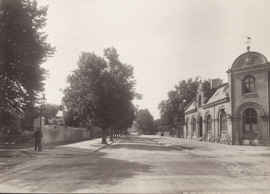 A look down Pile Allé from Frederiksberg Runddel in the early 20th century. The Old Police Station - now the Storm P Museum - is seen to the right. Note that it originally stood in blank (not dressed as now) yellow brick . The changes to the building took place in the mid 1920s.